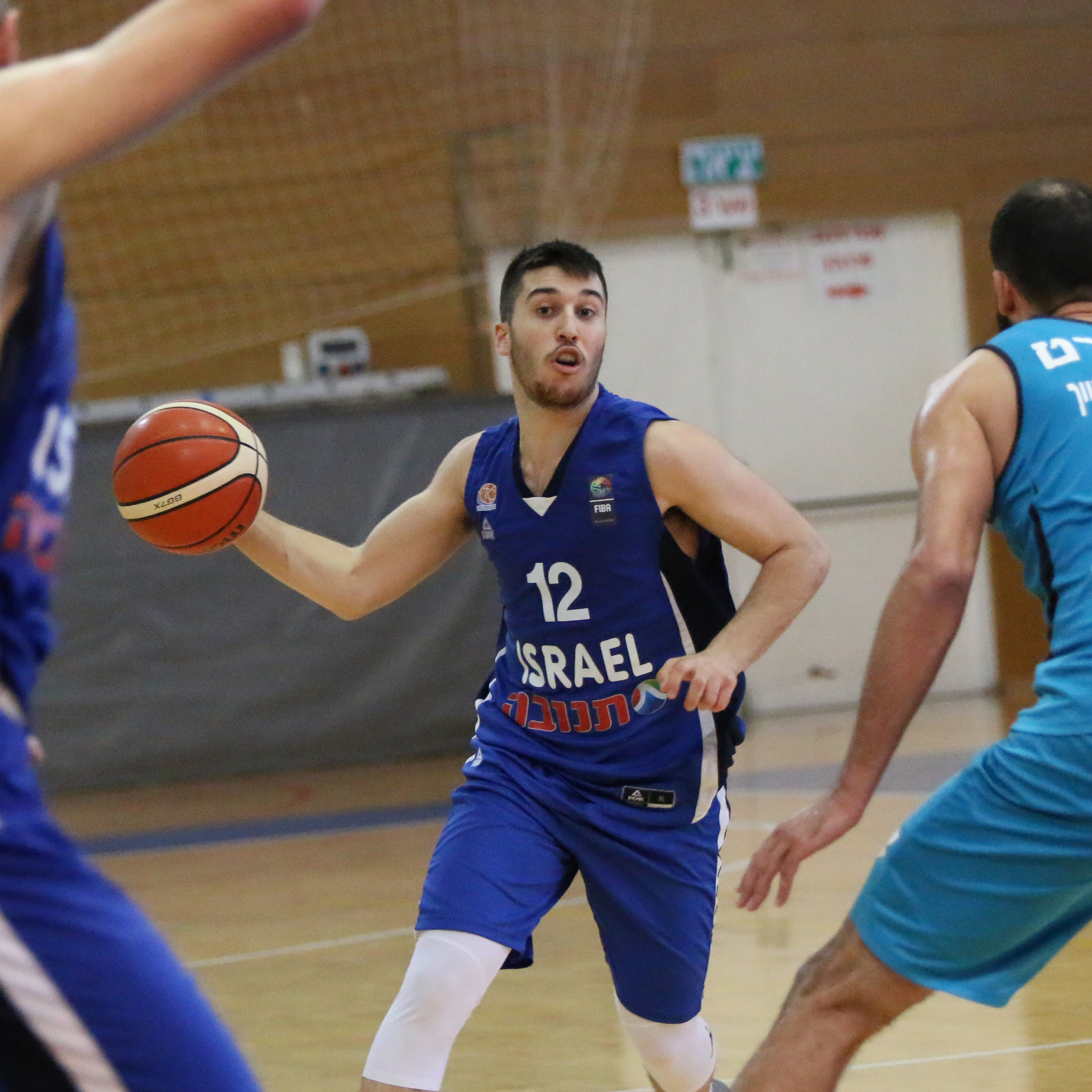 Tamir Blatt 2017